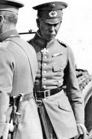 Cropped image of General Walther Reinhardt from German Federal Archives